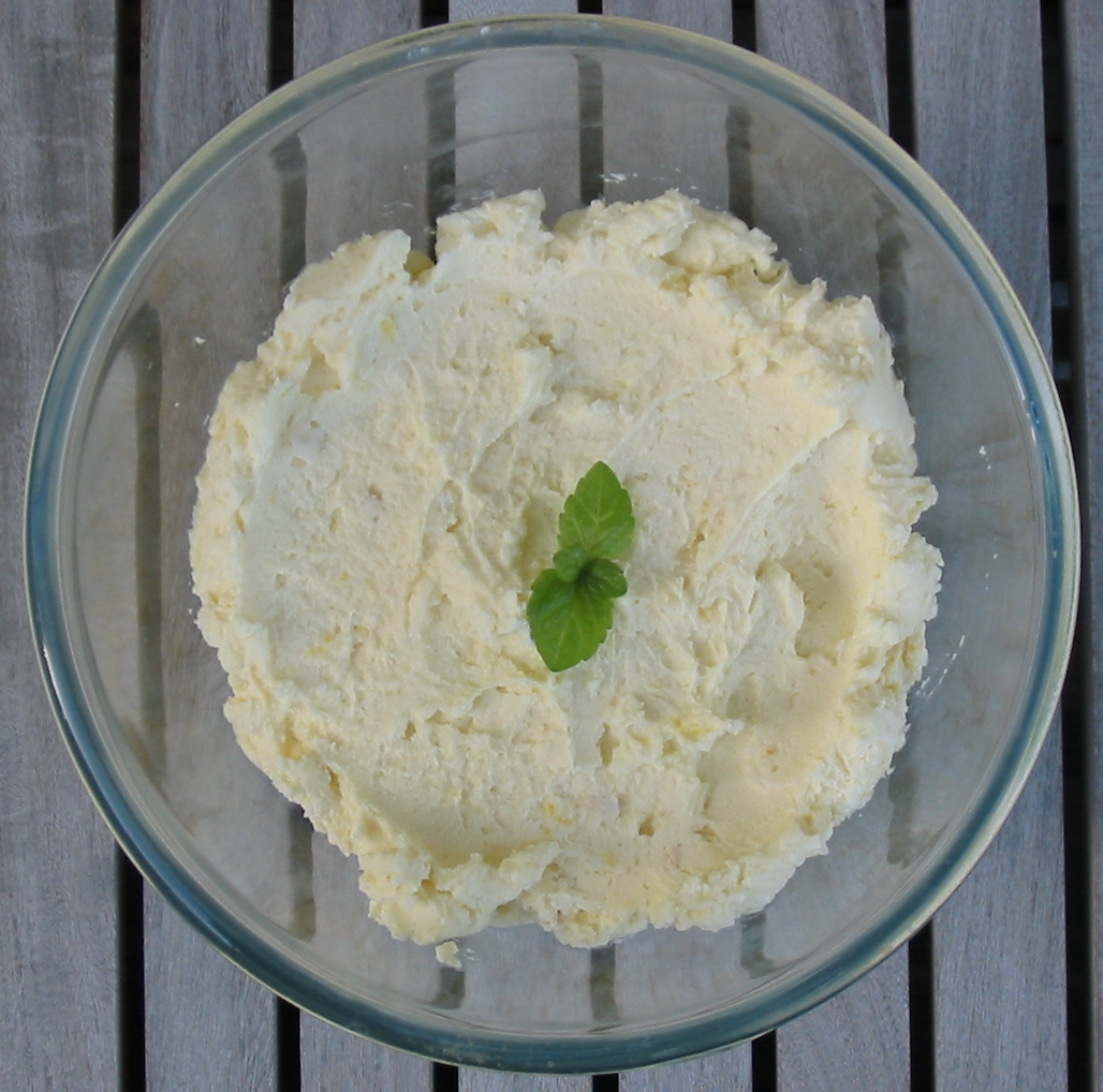 Syllabub (ingredients: cream, goat's cheese, lemon zest, lemon juice, honey, mint to garnish)